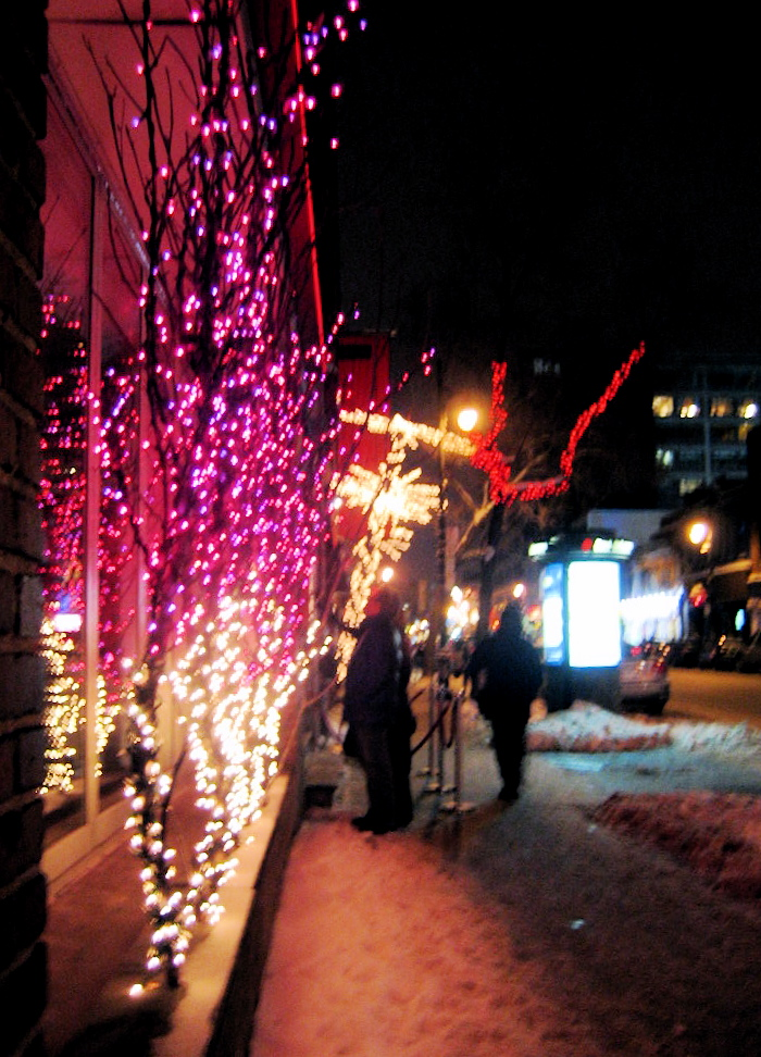 Saint-Laurent Boulvard, at night in the upperscale bars and restaurants section (north of Milton Street). Photo by uploader.